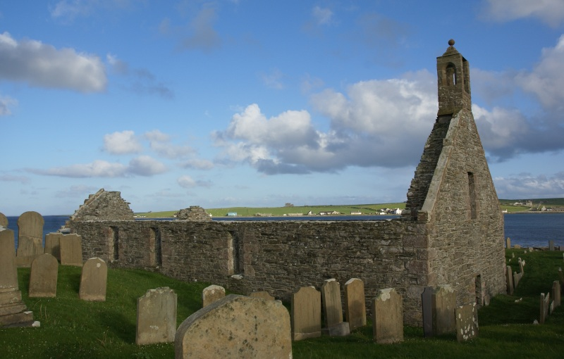 Pierowall Church, Pierowall, Westray, Orkney, Scotland.